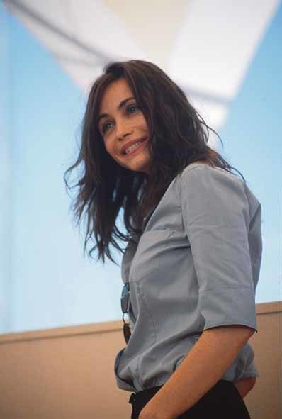 Béart Emmanuelle at Cannes in 2000. My own work. Created by Rita Molnár 2000.